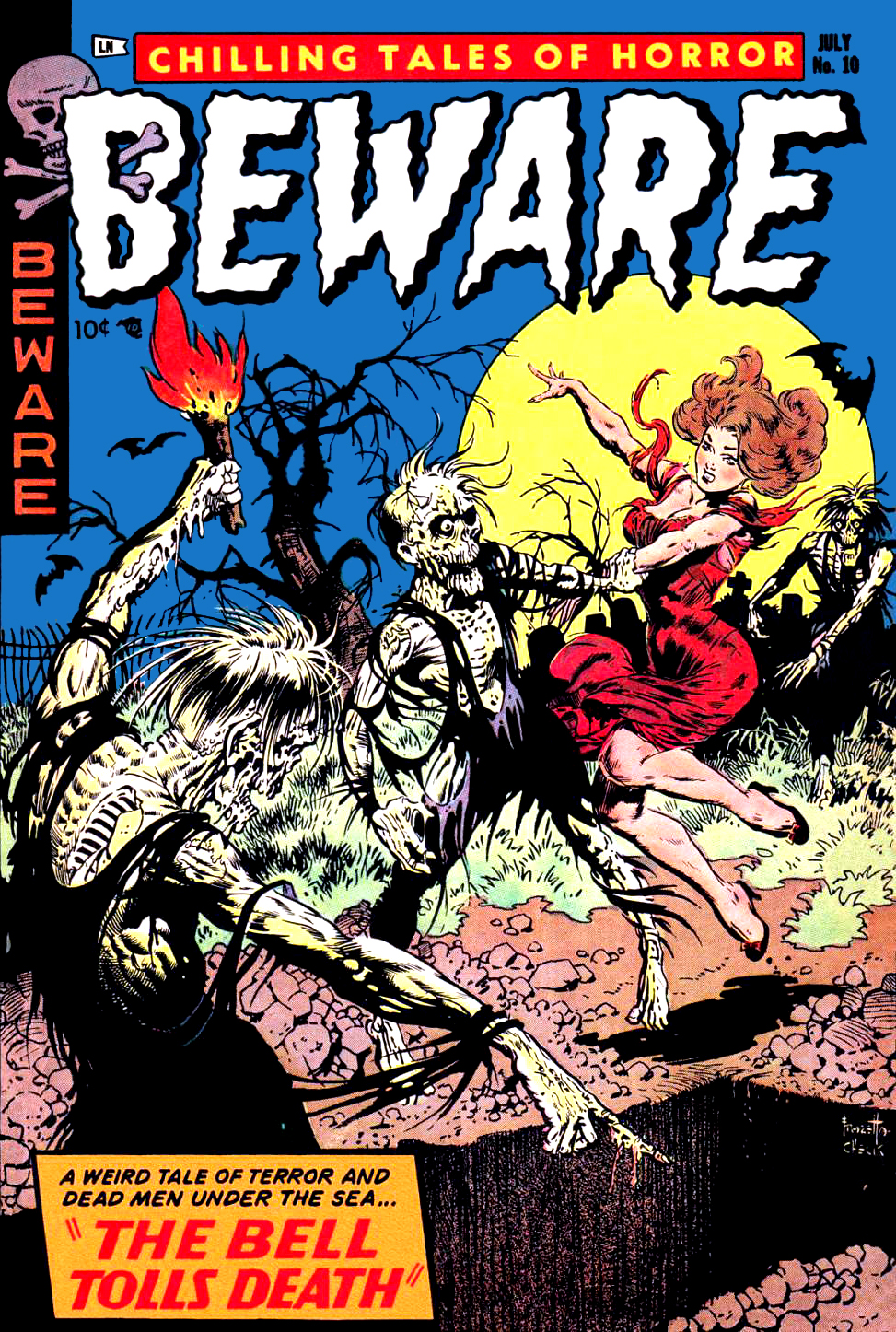 Cover of Beware number 10 (July 1954), featuring art by Frank Frazetta. At the time, Frazetta was better known for his beautifully detailed linework on EC's crime and science-fiction titles.